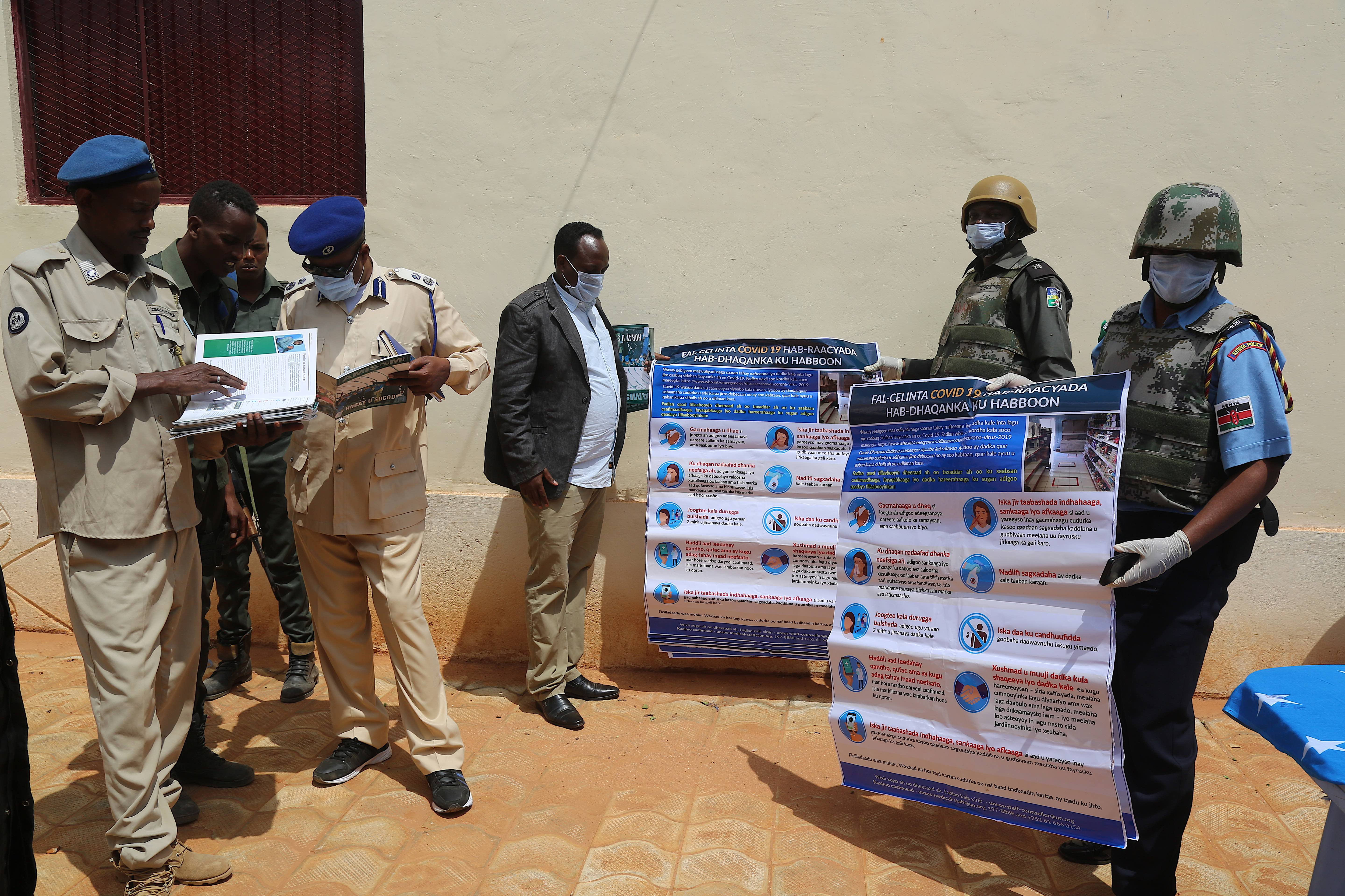 AMISOM Police officers hold Covid-19 awareness posters during a ceremony at which AMISOM Police handed over the newly constructed Bakiin Police Station to South West Police Authority in Baidoa, Somalia on 18 July 2020. The construction of the Police Station is part of AMISOM’s Quick Impact Projects (QIPs), aimed at ensuring quick but long-lasting impacts, thereby improving service delivery to the Somali people. AMISOM Photo